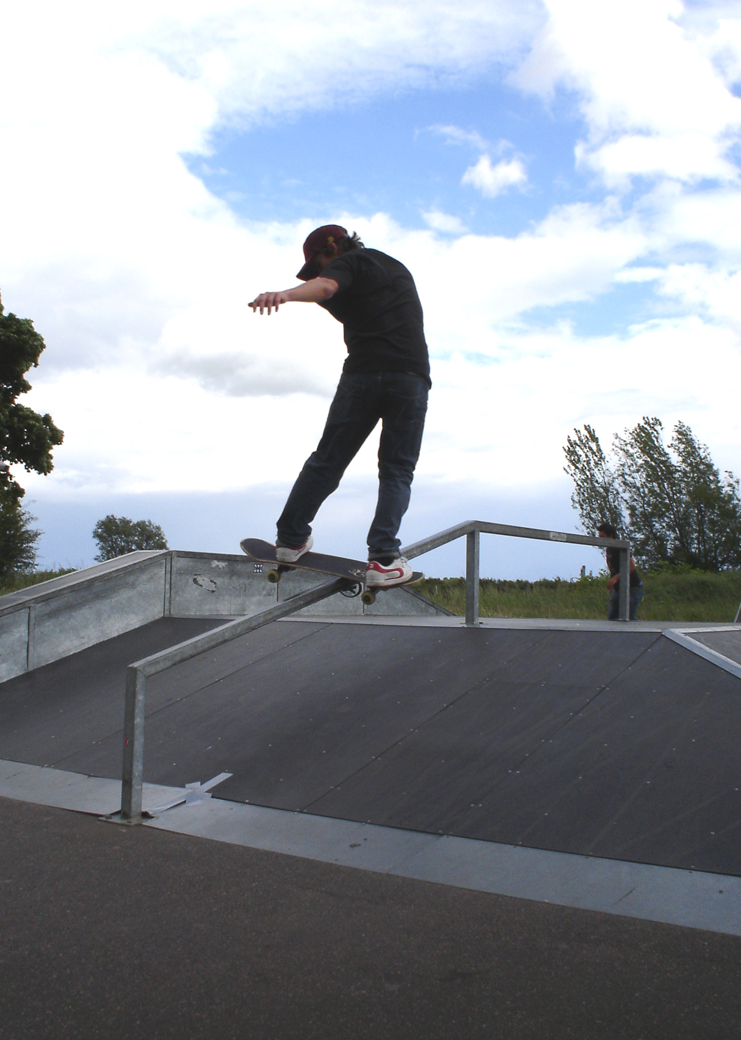 carl wilson gives the rail the duffs treatment, at beccles?!?